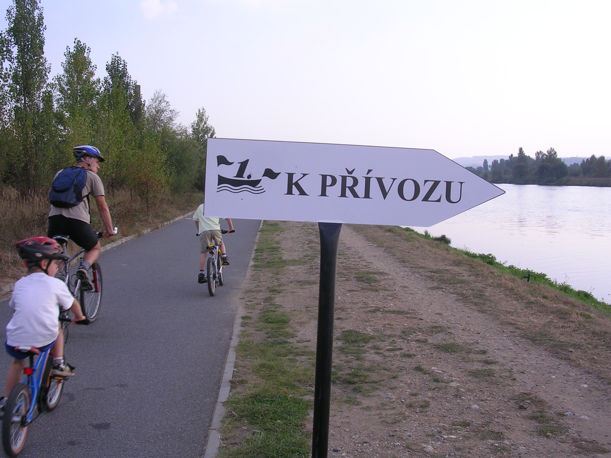 Modřany, Prague, the Czech Republic. Vltava Ferry Modřany - Lahovičky.